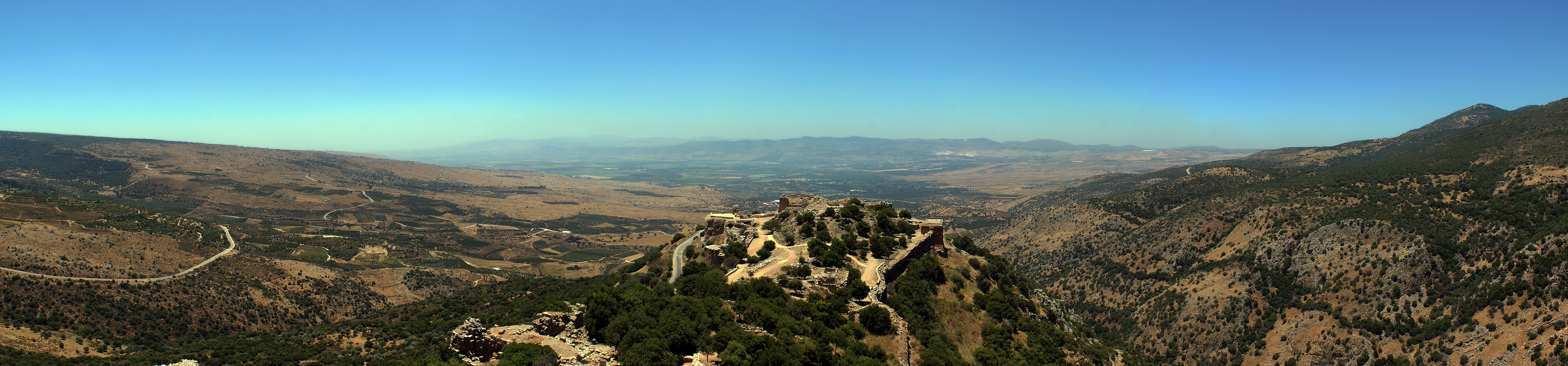 Nimrod Fortress, Israel. View from upper portion looking West.